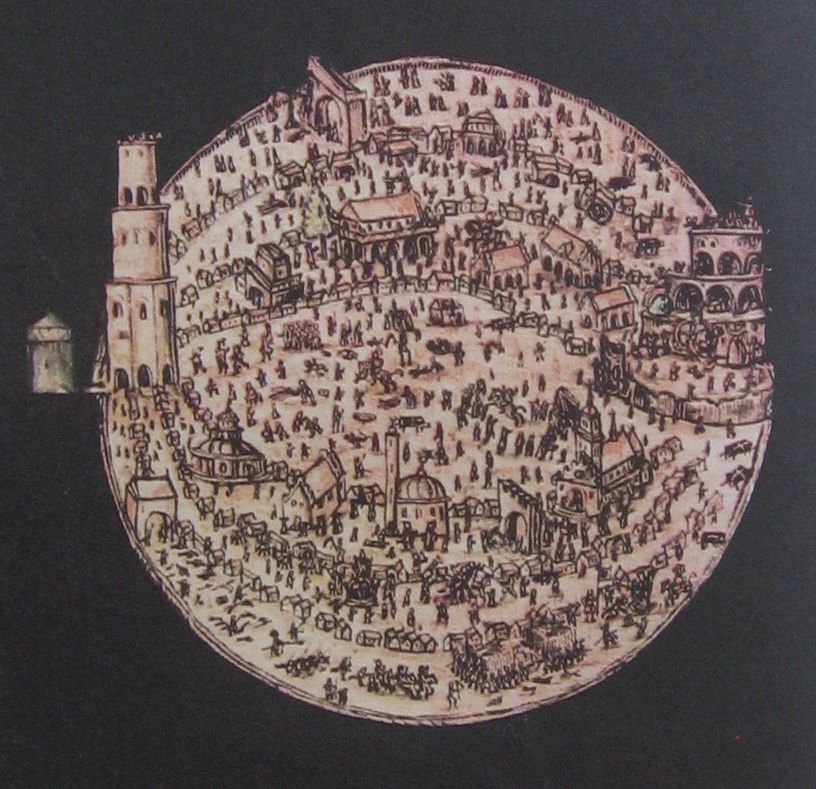 Drawing of the world from the manuscript of "Labyrinth of the World and Paradise of the Heart" by John Amos Comenius from the year 1623